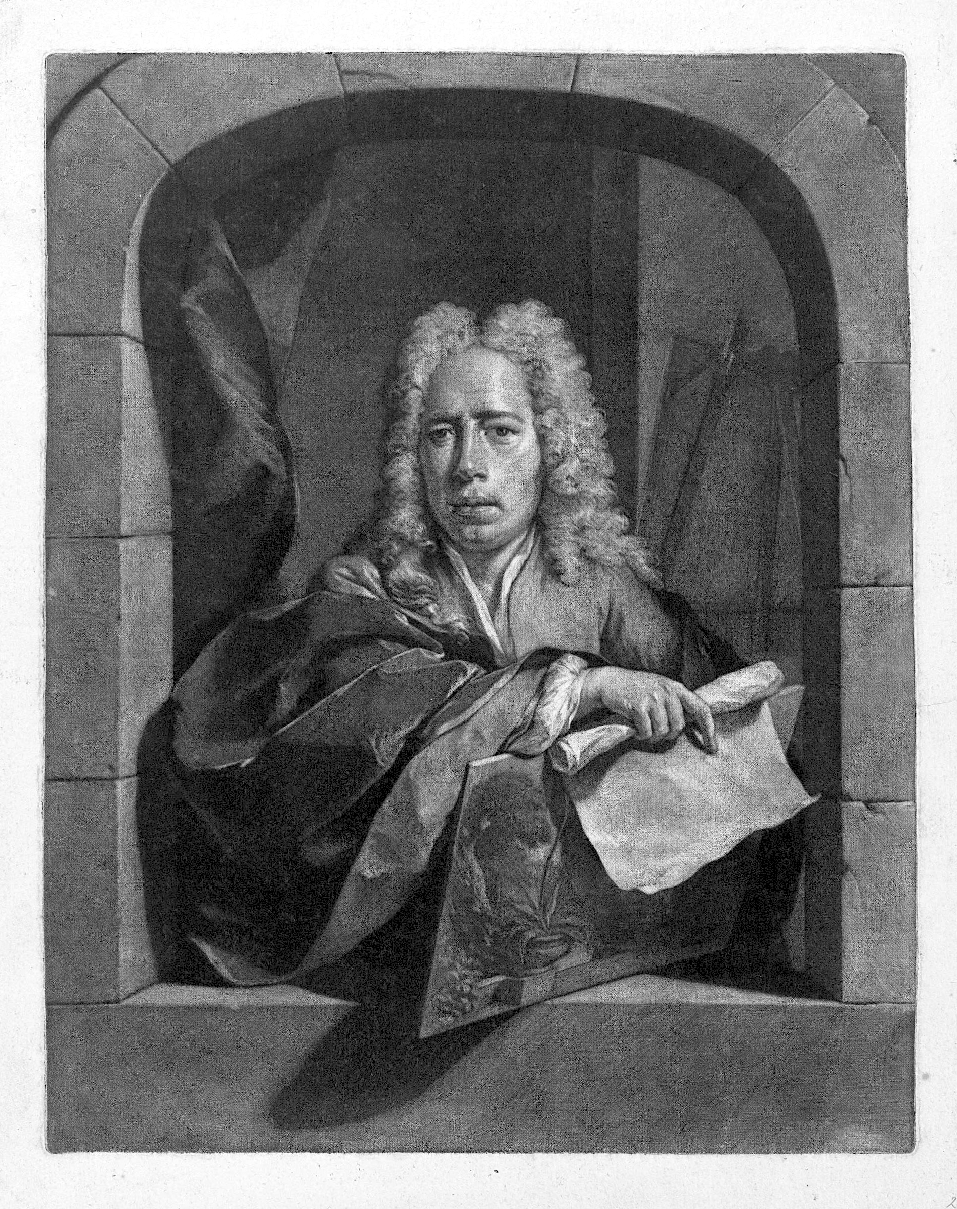 Carel Borchaert Voet mezzotint engraving on paper 1700 - 1746